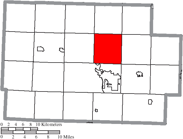 Map of the municipal and township boundaries of Coshocton County, Ohio, United States, as of the 2000 census, with the location of Keene Township highlighted. Township borders are shown only in unincorporated areas in order to differentiate incorporated and unincorporated areas more clearly.